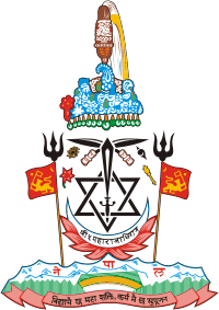 Coat of Arms of Shah dynasty of Nepal; last ruling dynasty until abolishment of monarchy on 2008